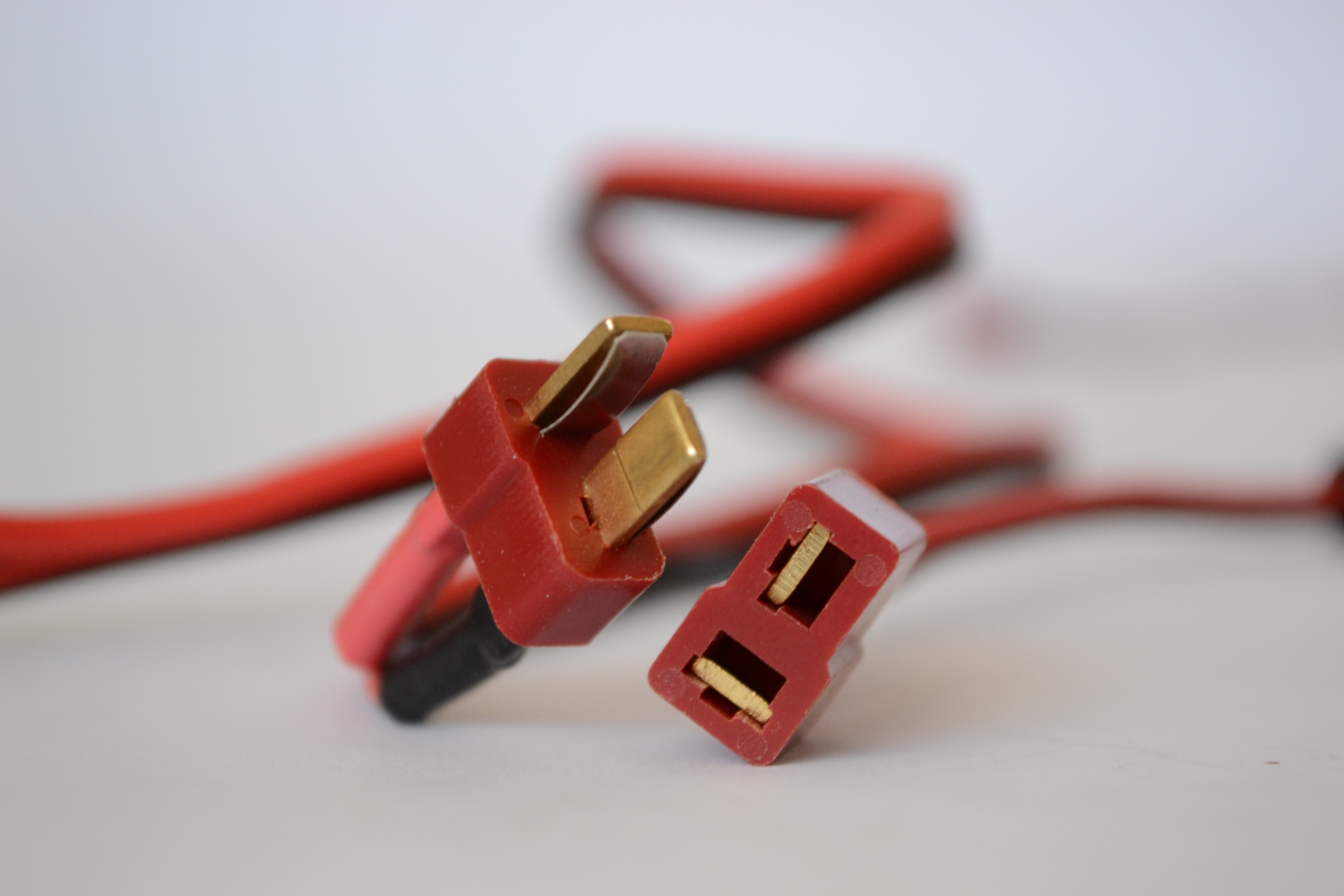 Famous conector used in RC cars. Deans ultra plug